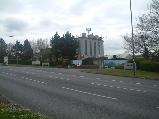 Bretby Business Park main entrance